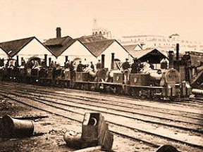 Railway with workers at the Mina de São Domingos, Portugal in 1880